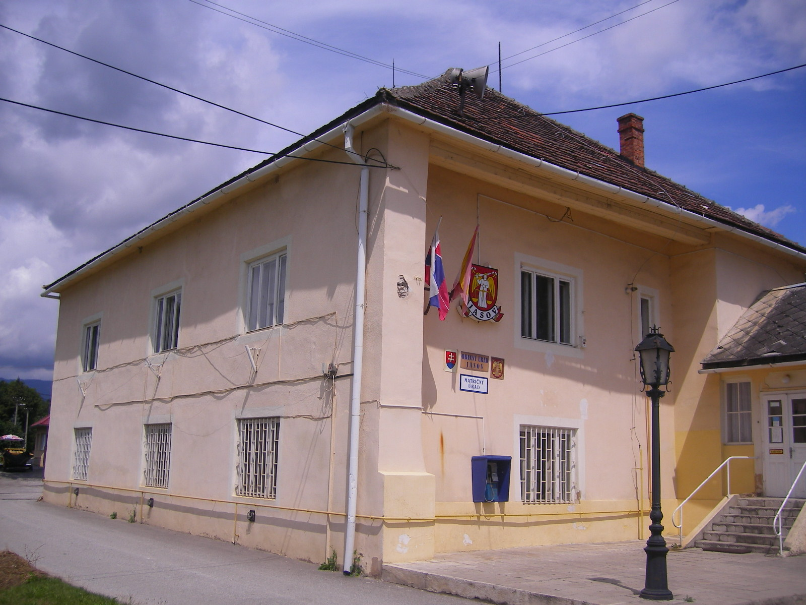 Jasov - municipality